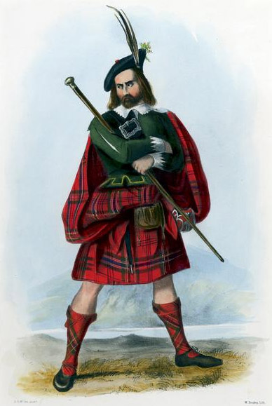 "Mac Lean". A plate illustrated by R. R. McIan, from James Logan's The Clans of the Scottish Highlands, published in 1845.